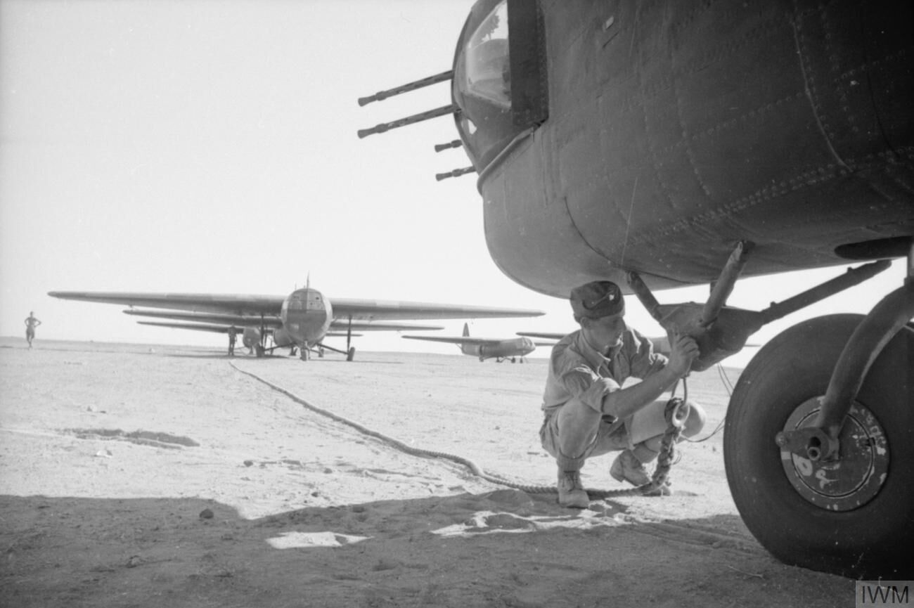 Royal Air Force Operations in the Middle East and North Africa, 1939-1943. An airman attaches the tow rope of an Airspeed Horsa glider to the tow hook of a Handley Page Halifax A Mark V Series 1 (Special) glider tug of No. 295 Squadron RAF Detachment at Goubrine II, Tunisia, in preparation for Operation FUSTIAN; the airborne assault and seizure of the Primosole Bridge over the River Simeto, south of Mount Etna on Sicily, by elements of 1st Parachute Brigade on the night of 13/14 July 1943.